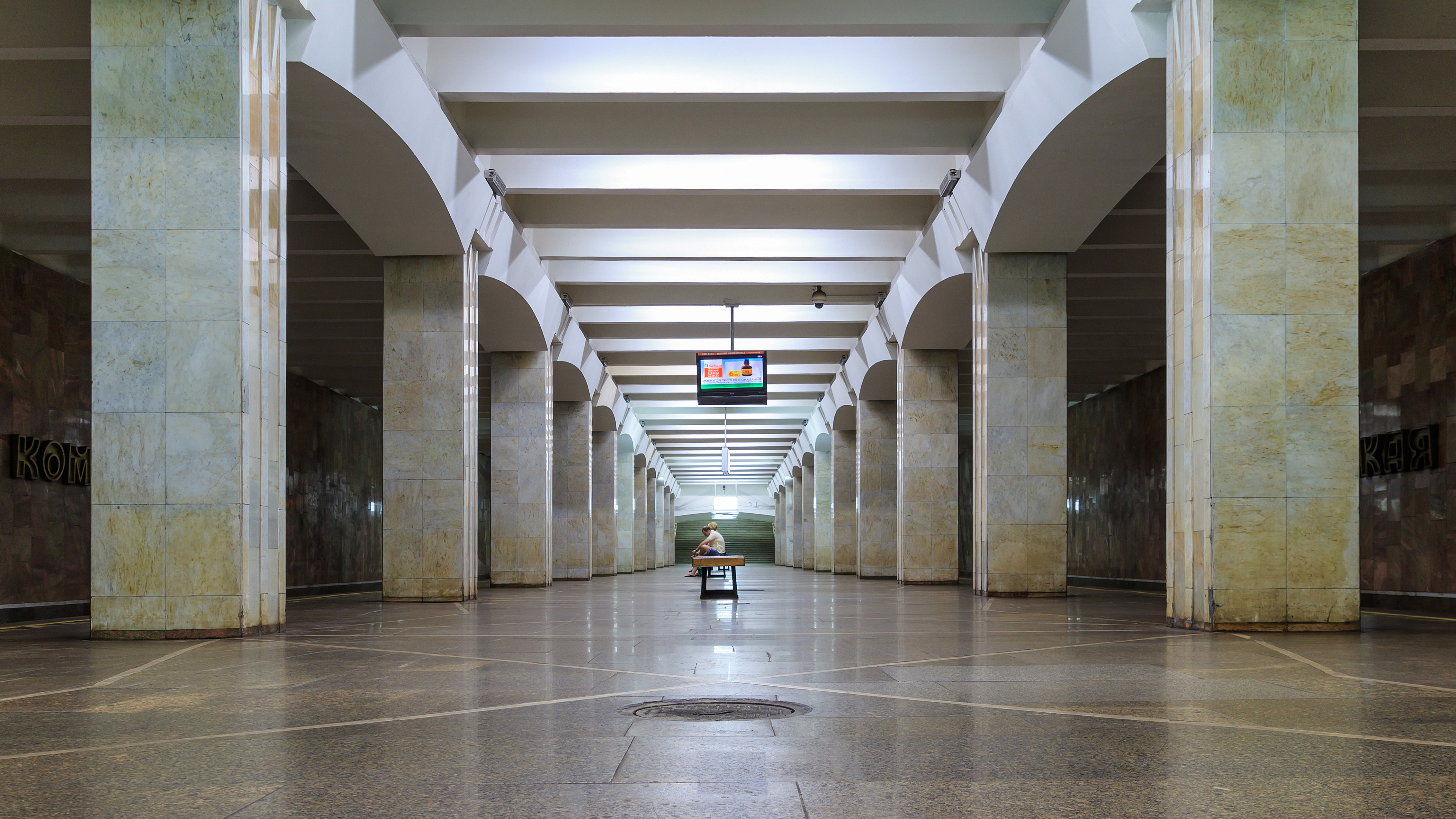 Komsomolskaya metro station in Nizhny Novgorod, Russia.